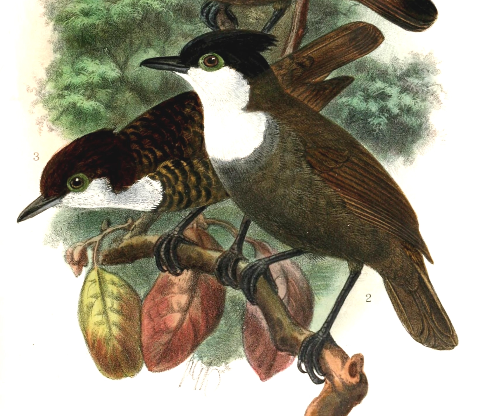 « Anoplops hoffmannsi » = Rhegmatorhina hoffmannsi (White-breasted antbird) - male and female